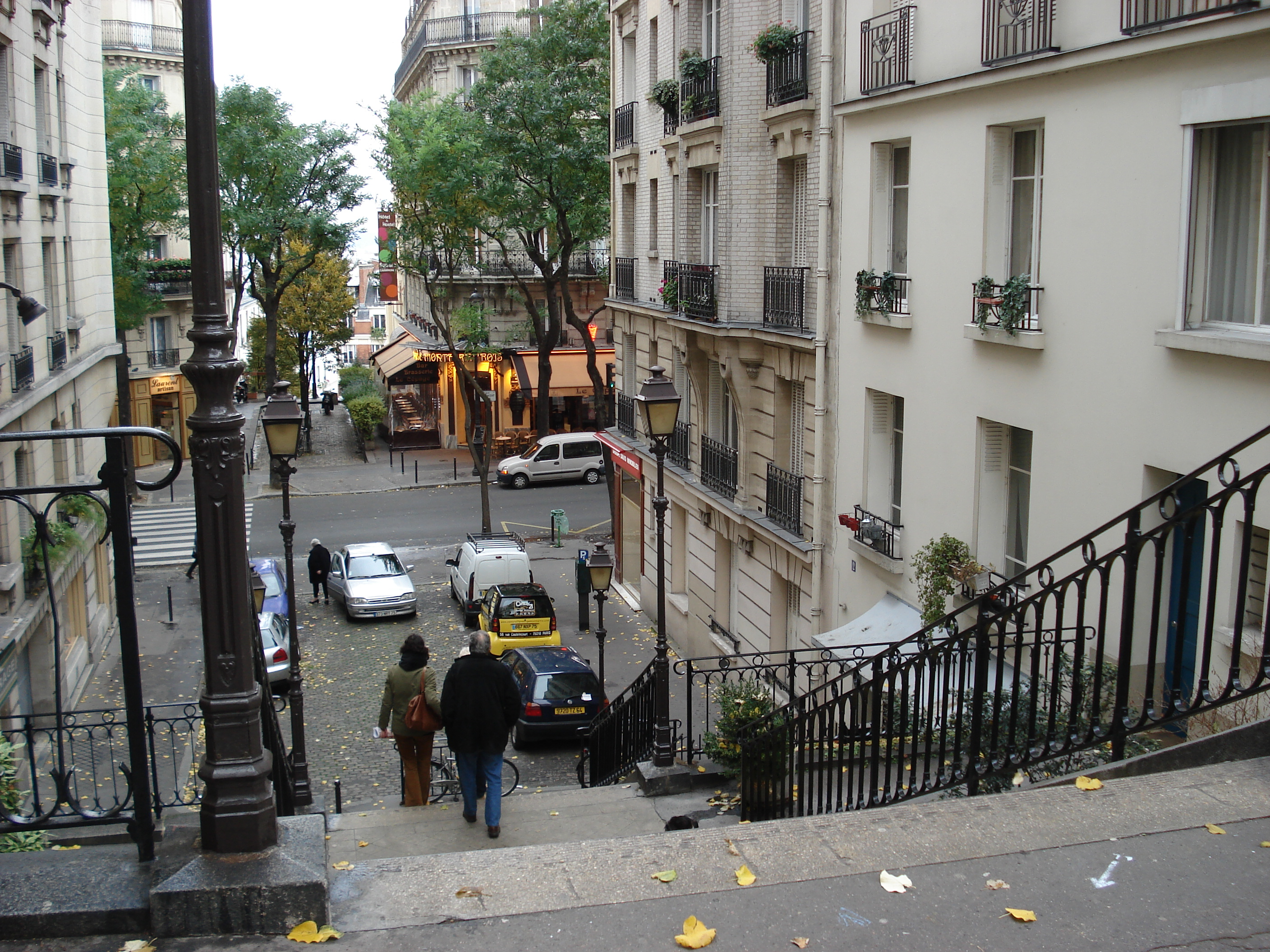 Street View of Paris